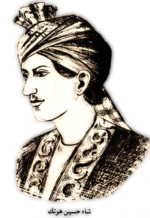 Shah Hussain Hotak, the last Hotaki leader from Kandahar, Afghanistan.